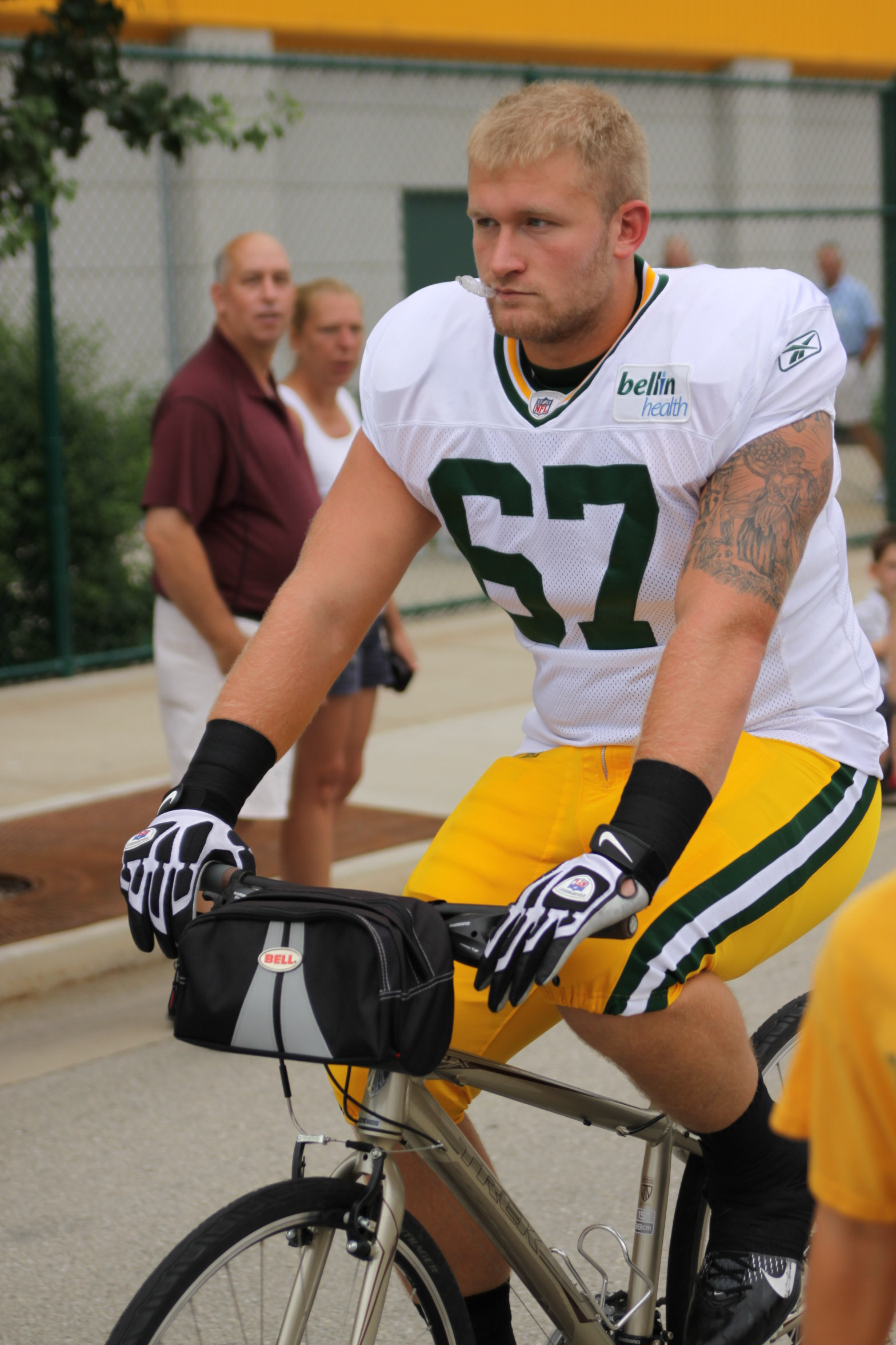 Green Bay Packer Nick McDonald riding a fan’s bicycle at pre-season training camp, Green Bay, Wisconsin, August 1, 2011